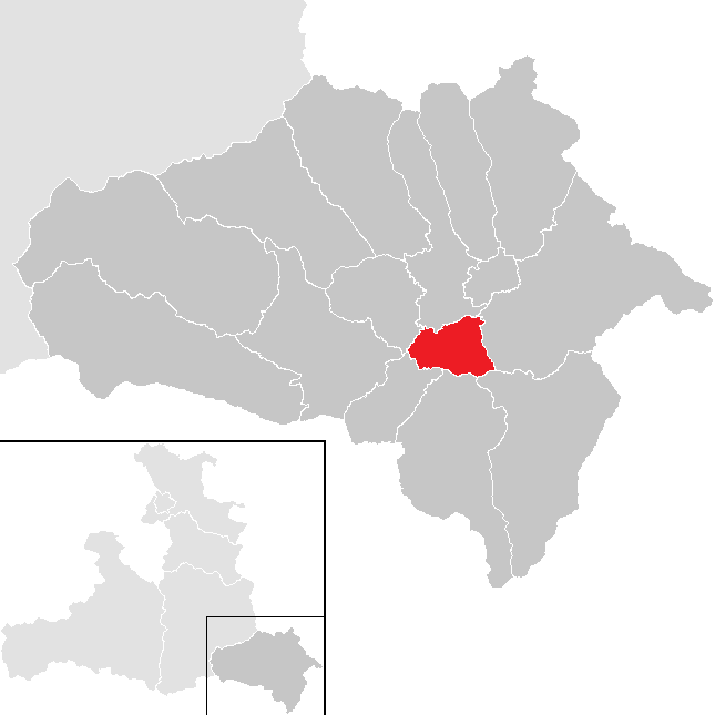 District Tamsweg